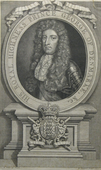 Engraved portrait of Prince George (Jørgen) of Denmark and Norway, Duke of Cumberland (2 April 1653 – 28 October 1708), prince consort of Queen Anne of Great Britain, by R. Sheppard after R. White, mid 18th century